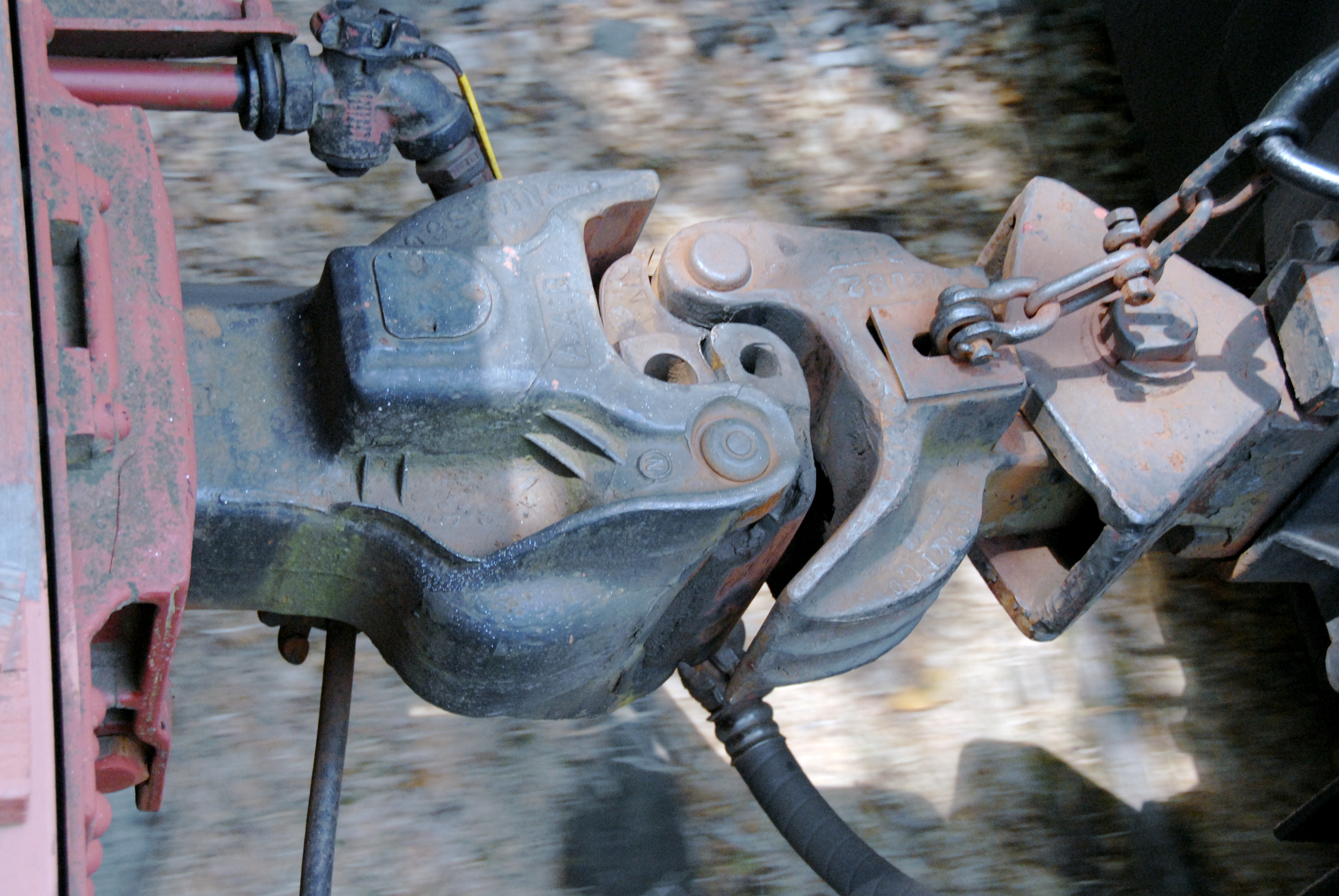 Coupling detail, train in motion